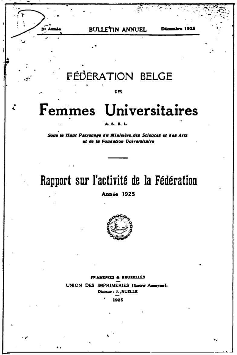 Cover page of the newsletter of the Belgian Federation of University Women.